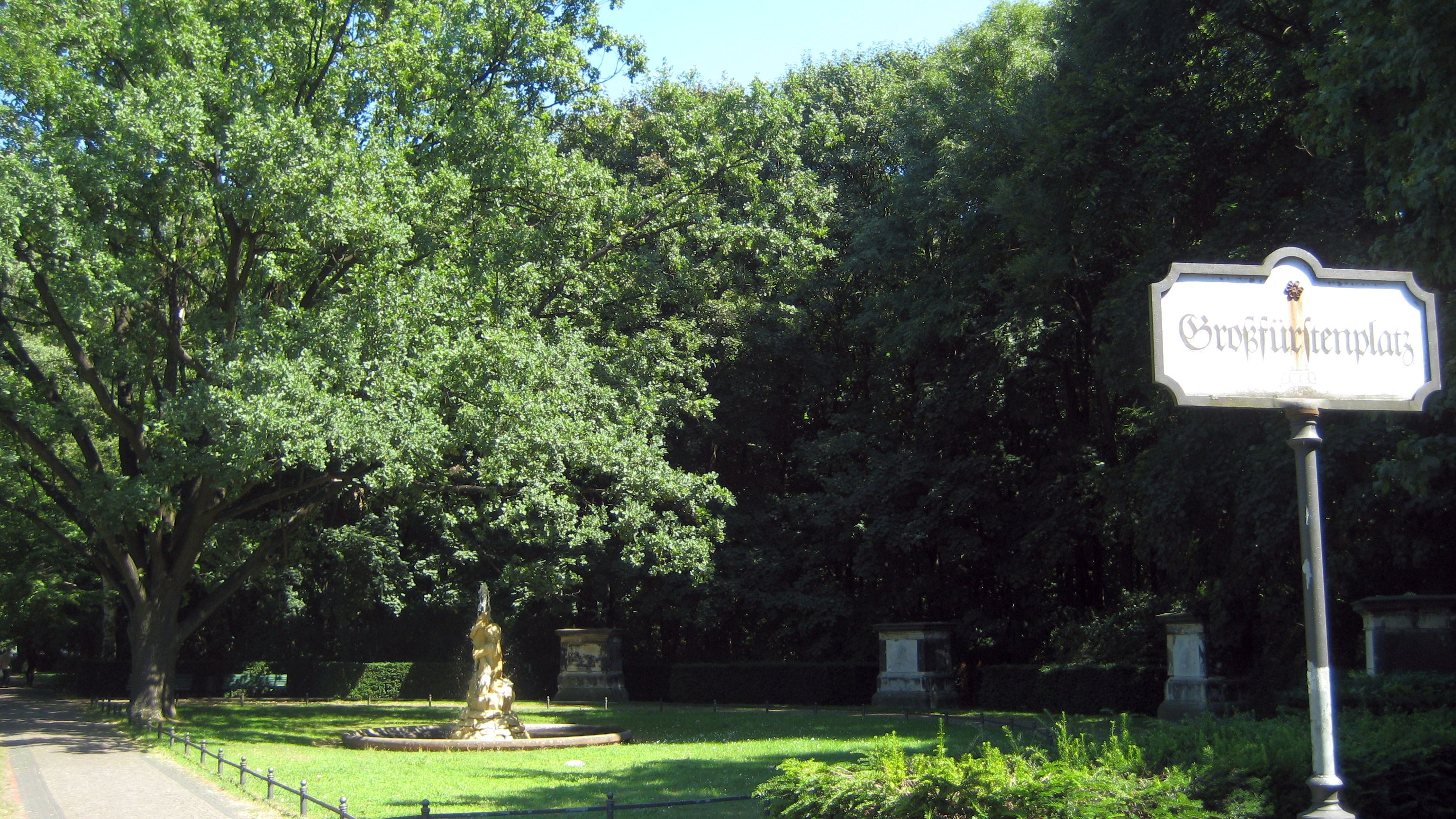 Großfürstenplatz in Großer Tiergarten in Berlin with triton fountain by sculpturer Joseph von Kopf (1888). Kratt 1998: Katalognummer 112a (Kratt 1998 = Regina Kratt: Joseph von Kopf: 1827 - 1903; das Werk des Bildhauers mit typologischen Studien zur Büste und Gruppe, Aachen/Mainz 1998 (zugleich: Karlsruhe, Universität, Dissertation, 1995), ISBN 3-89653-248-0.).